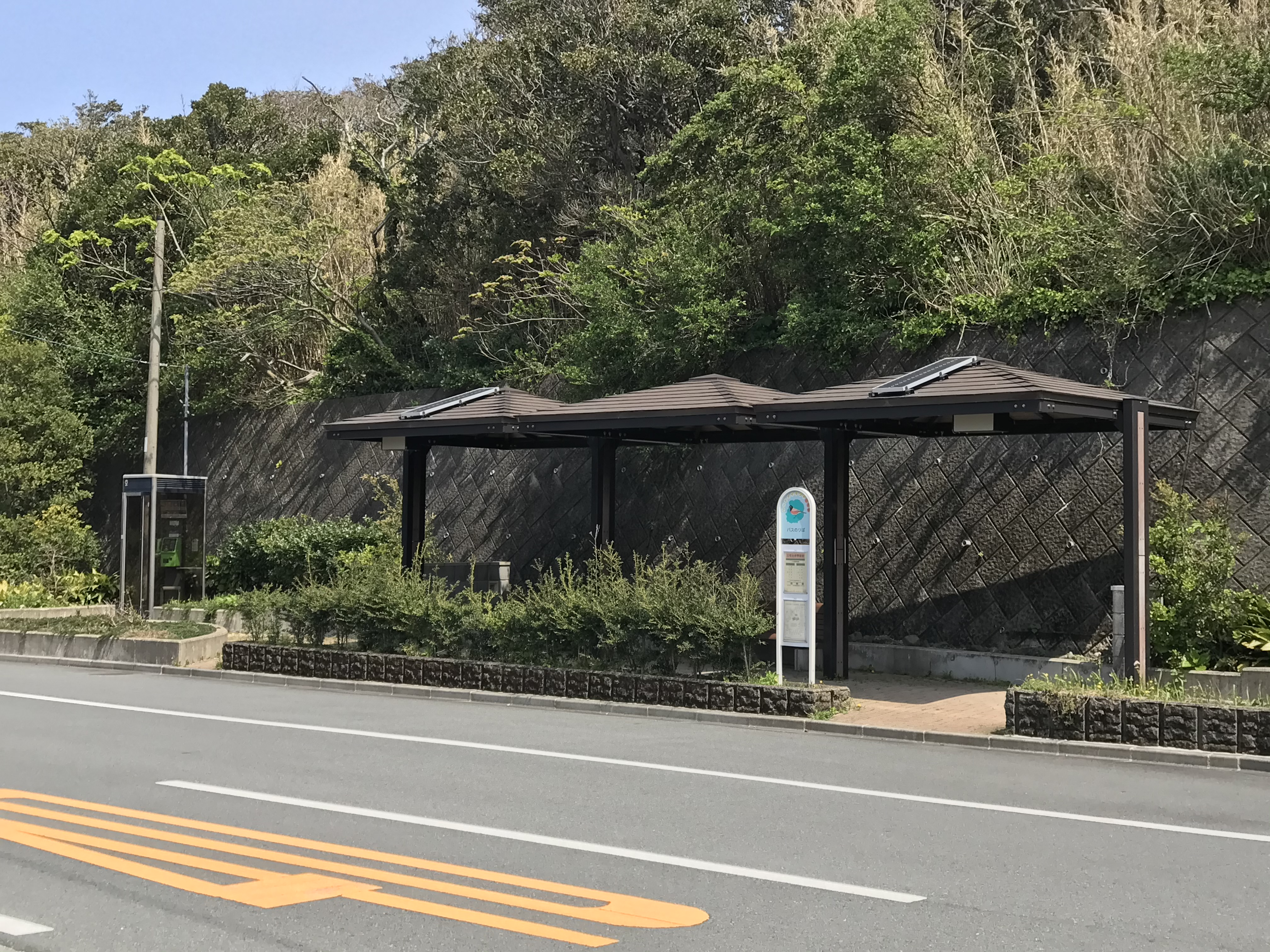 Bus stop near junior high school and elementary school.